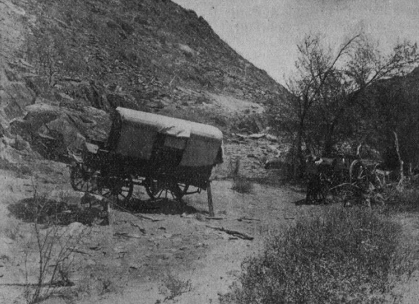 Wagon used by Winifred Hoernlé in 1912 for anthropological field work